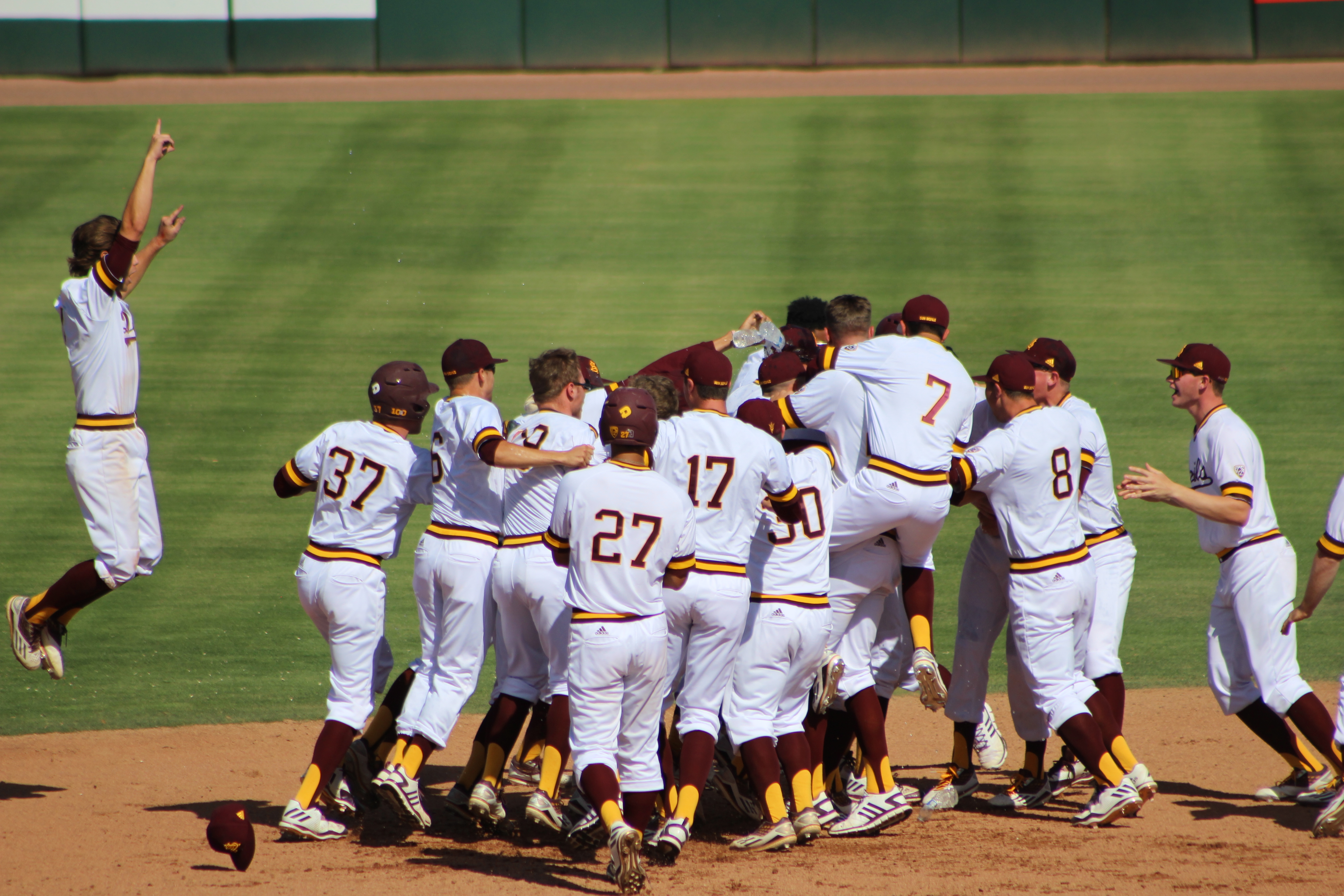 Sophomore pitcher James Ryan douses Freshman Hunter Bishop and the rest of his teammates after Bishop's walk-off single capped a Sun Devil 4-run 9th inning rally to sweep the 3-game series from WSU.